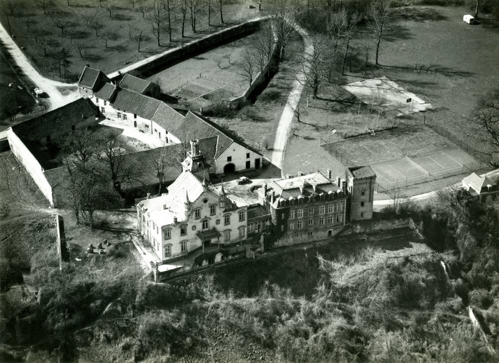 Aerial view of Castle Caestert (1965). The castle was destroyed by the owners only a few years after this photograph was taken.